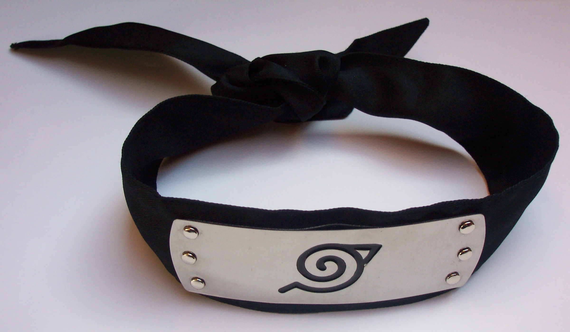 Naruto forehead cover.